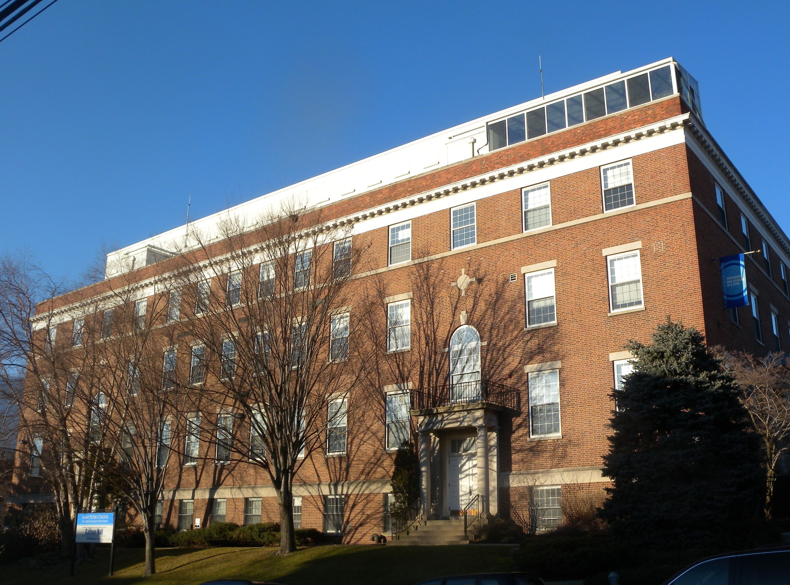 Looking north across Montgomery St at Gannon Hall on a sunny afternoon. EXIF coords are off by a hundred yards due to photographer's error.